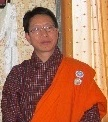 Courtesy call on H.E. Lyonpo Damcho Dorji, Minister for Foreign Affairs of Bhutan（February 3rd）